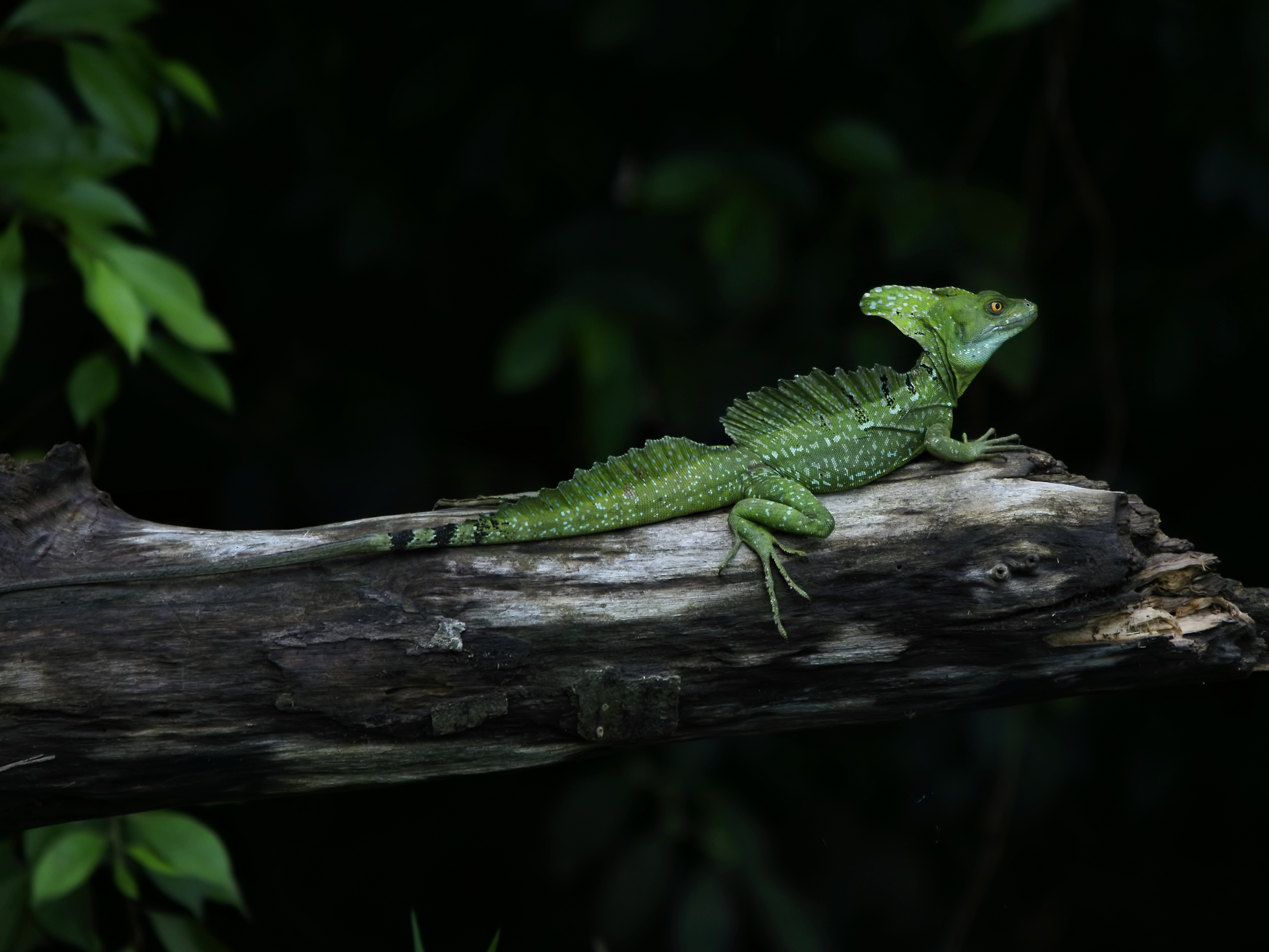 Plumed basilisk at Caño Negro, Costa Rica.